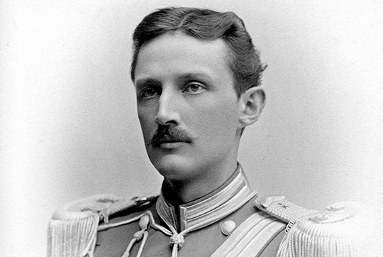 Prince Carl in 1892.